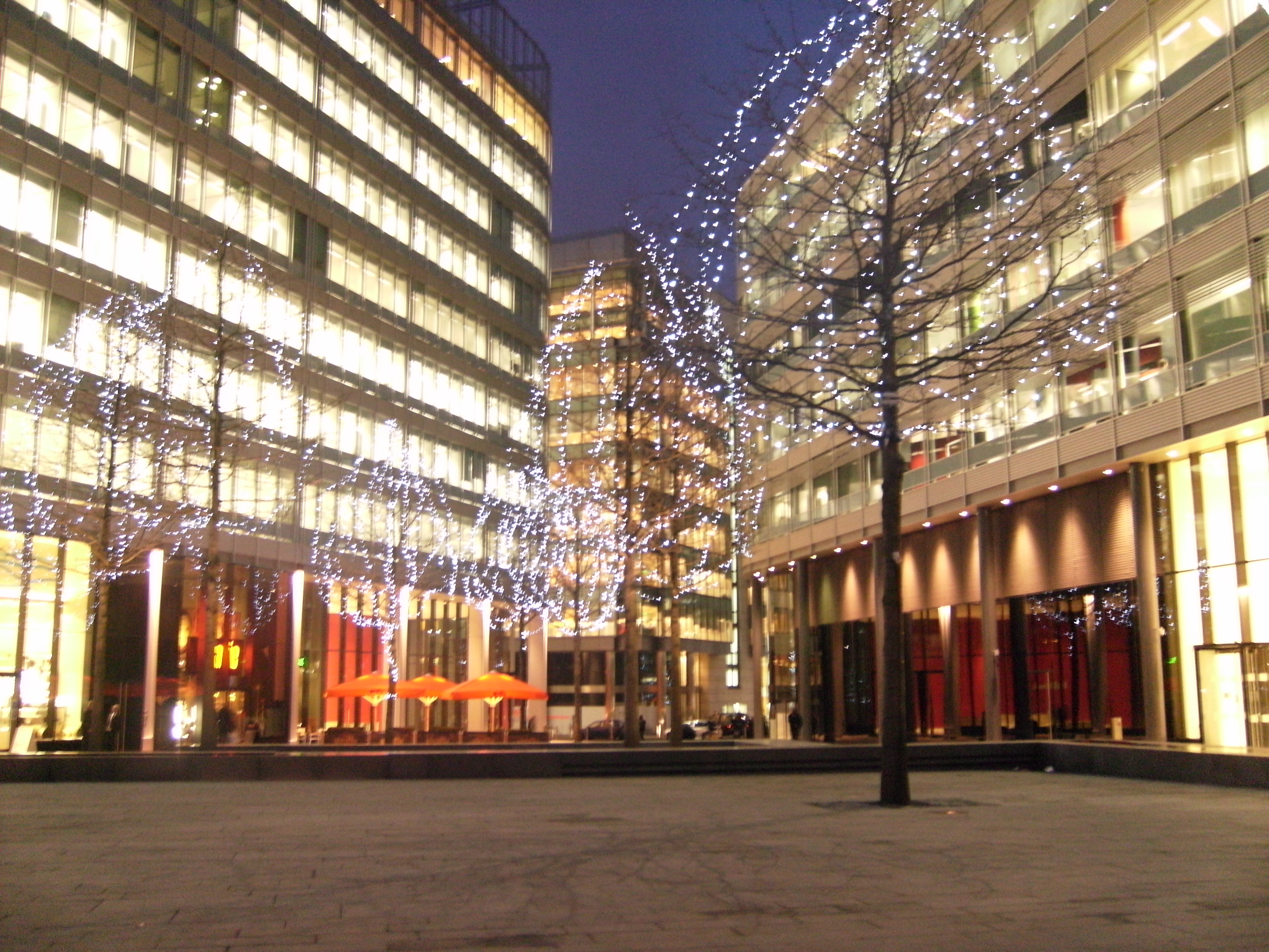 image of Hardman Square in Manchester, England